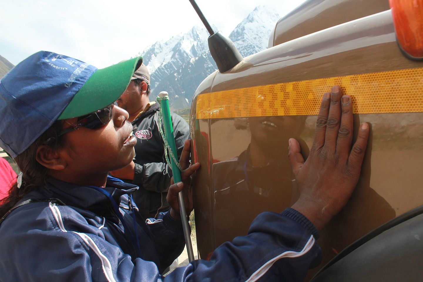 A blind girl feels the shape of a vehicle near Mana village, Uttarakhand during her trek towards Chaukhamba base .